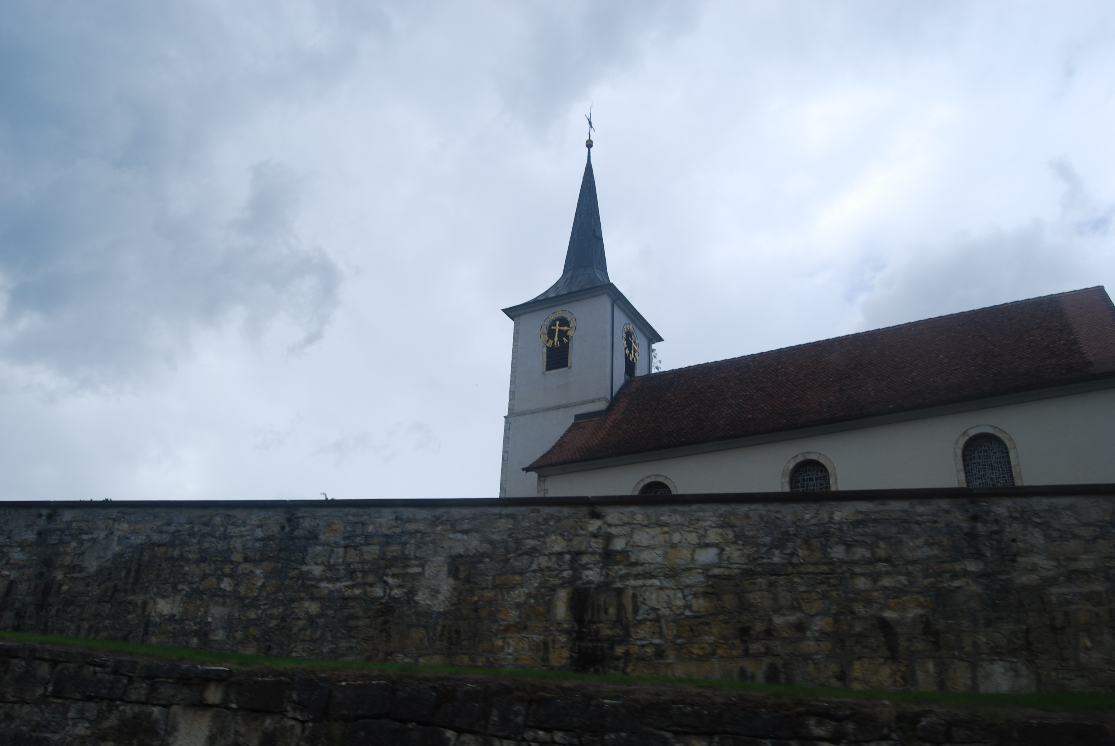 Church of Devilier, canton of Jura, Switzerland